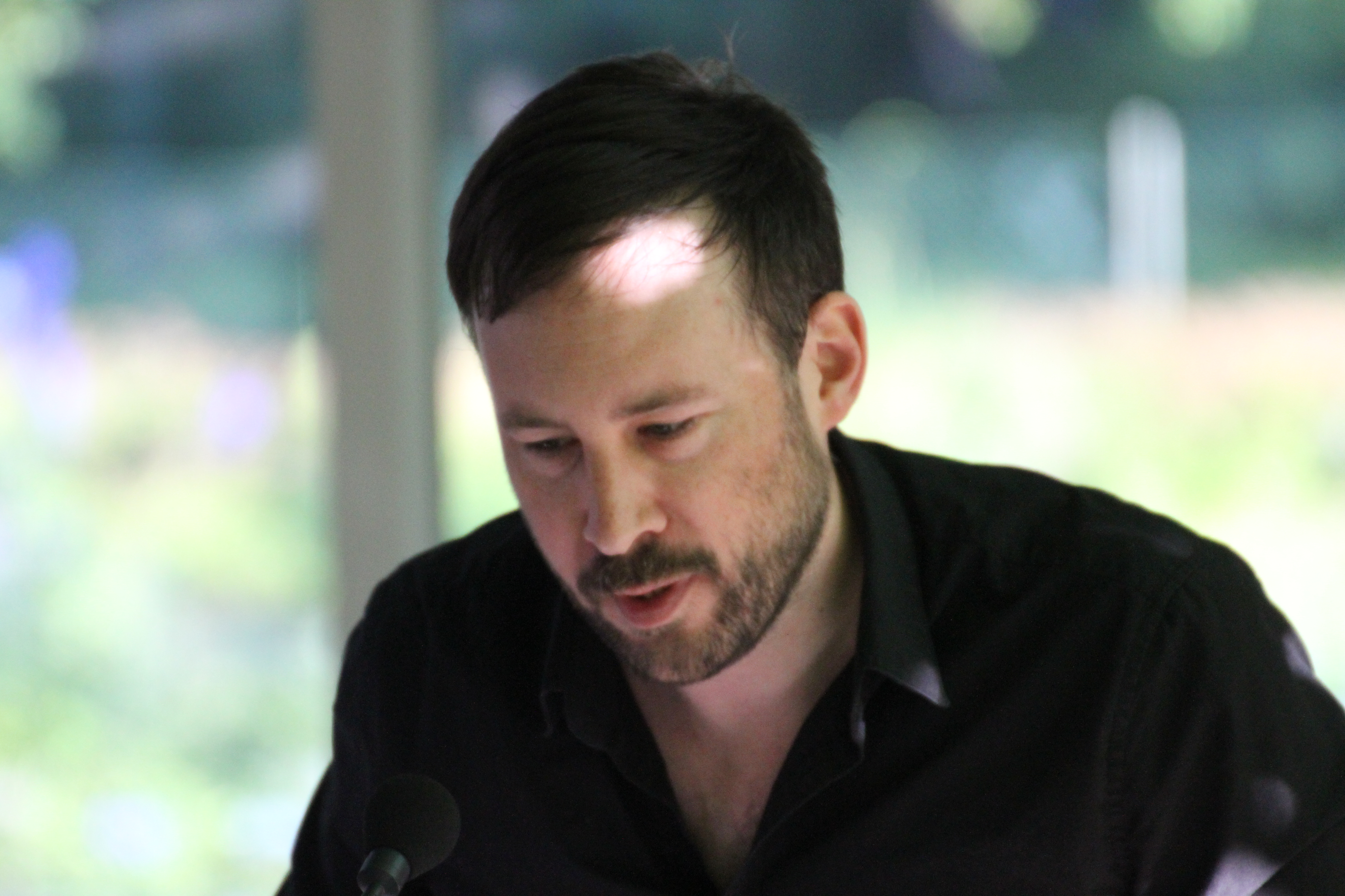 Daniel Falb at the Lyrikmarkt Berlin 2016